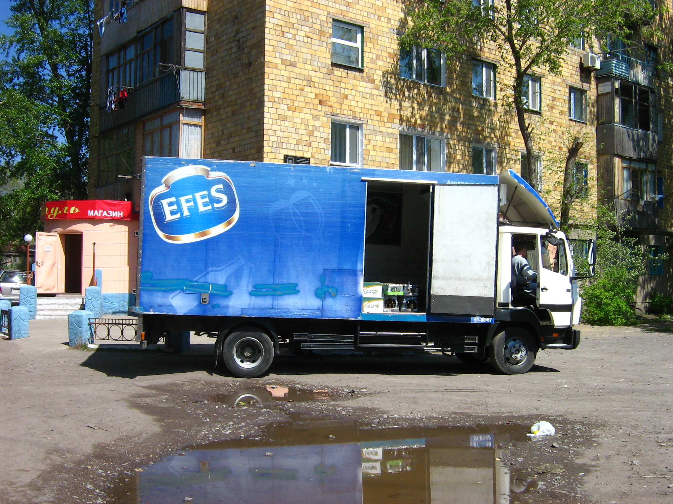 The bottled beer truck of "Efes Brewery" in Karaganda, Kazakhstan